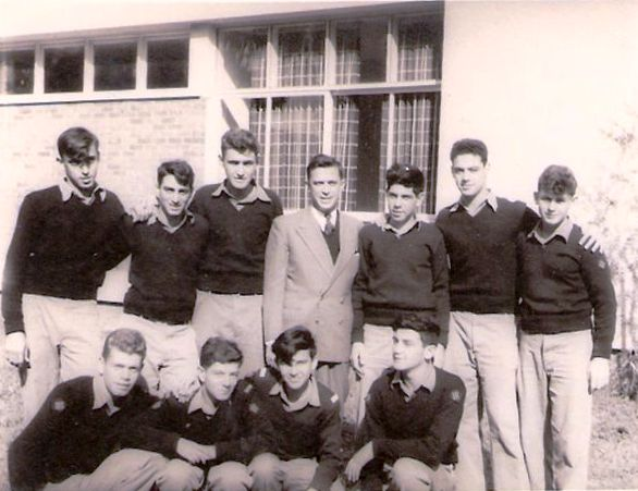 Capt Emanuel Klemperer with the navigators of Gimmel class of the INC in Acre